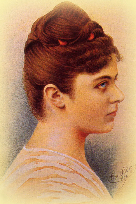 Mary Vetsera im Profil, Zeichnung Em. Böger 1889, Repro, Bildarchiv der Österreichischen Nationalbibliothek Wien, Inventar NB 515.152/BRF